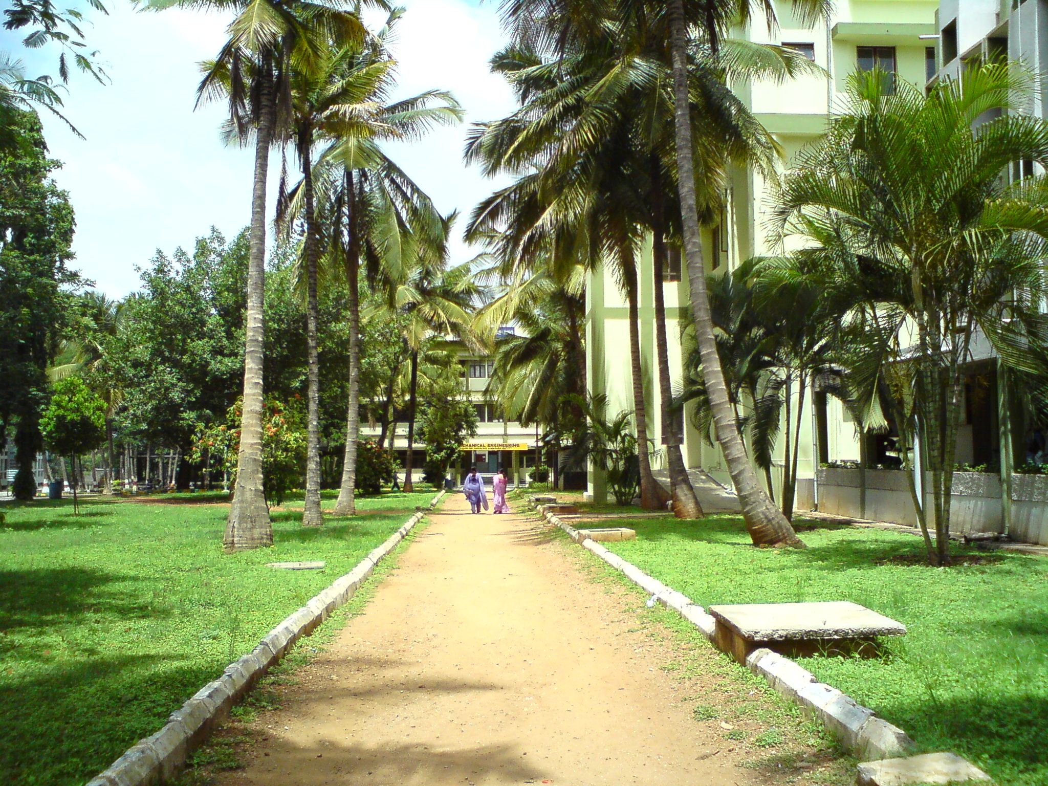 Campus of Rashtreeya Vidyalaya College of Engineering near the Mechanical engineering block.